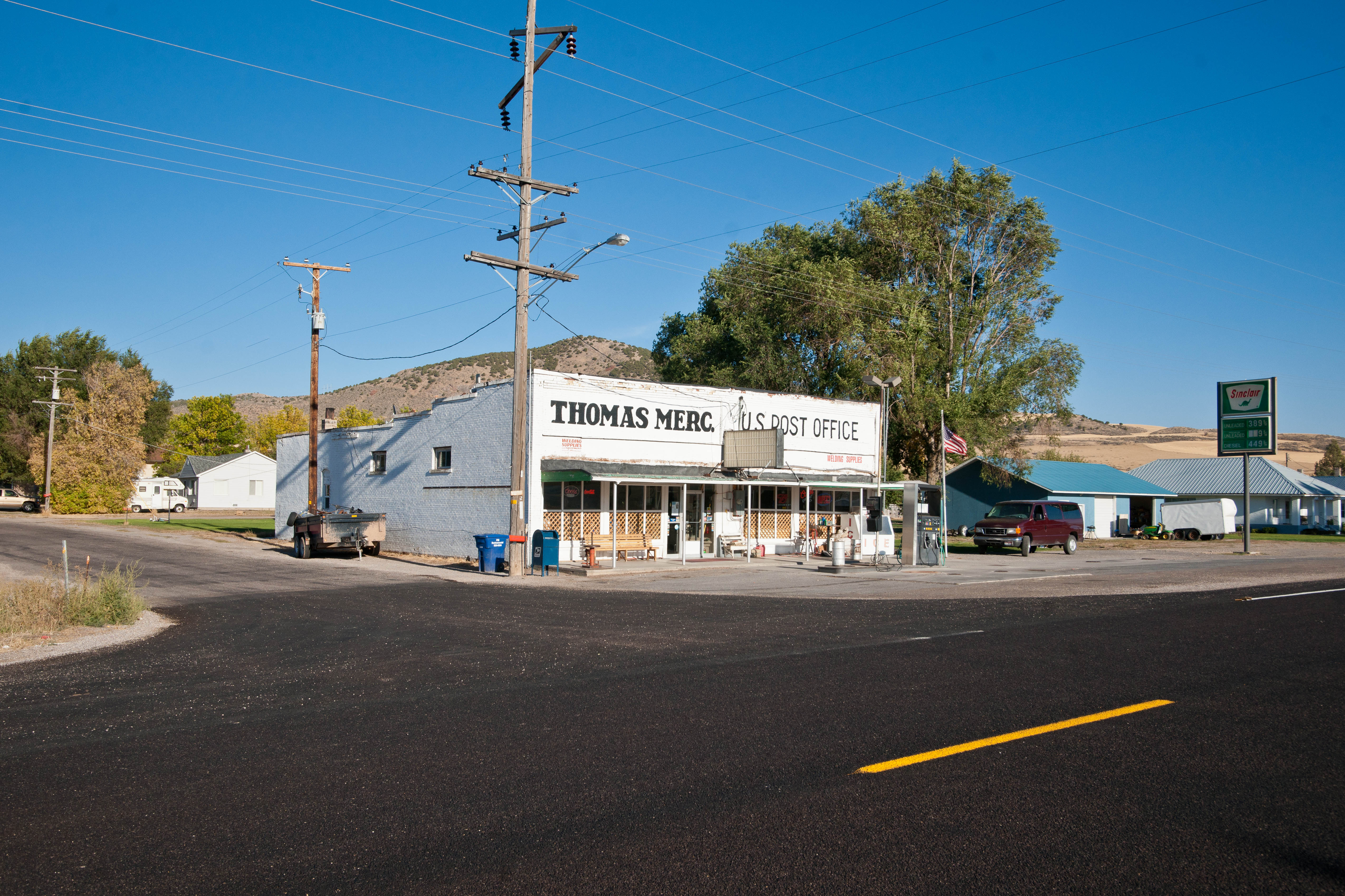 From